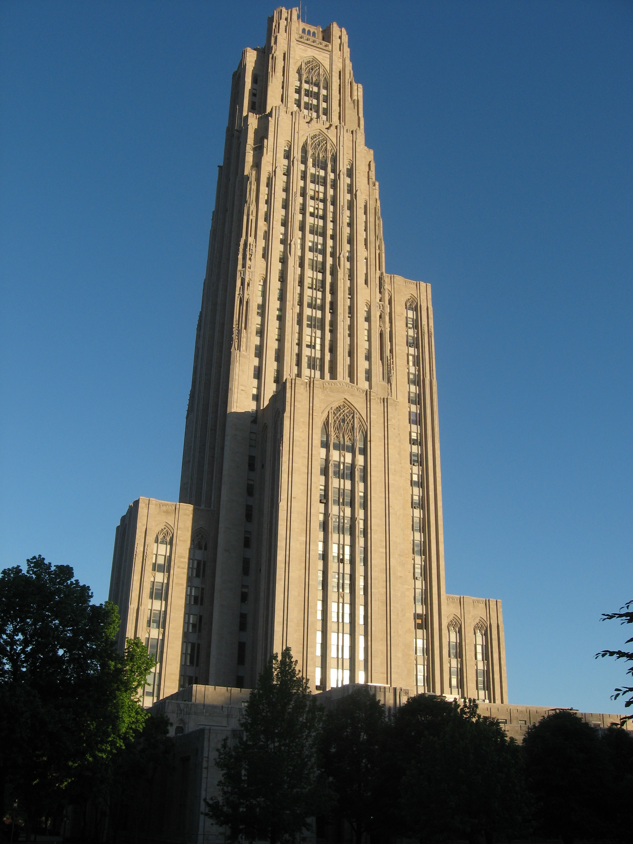 The Cathedral of Learning at the University of Pittsburgh 40°26′39.7″N 79°57′11.6″W / 40.444361°N 79.953222°W